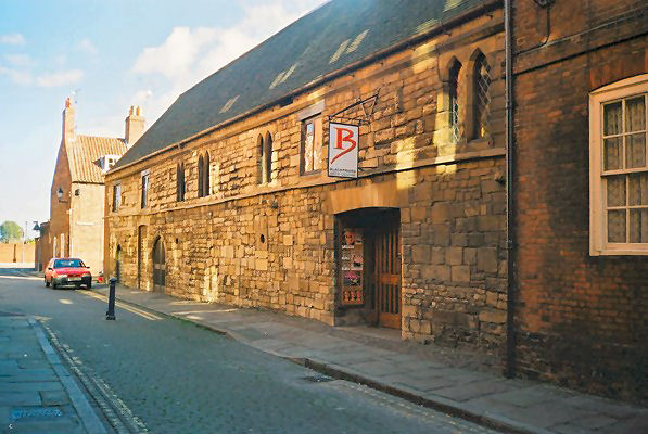 Blackfriars Arts Centre in October 2004.